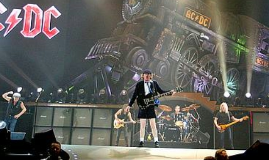 AC/DC at the Tacoma Dome in Tacoma, Washington, November 30, 2008. L-R: Brian Johnson, Malcolm Young, Angus Young, Phil Rudd, and Cliff Williams.